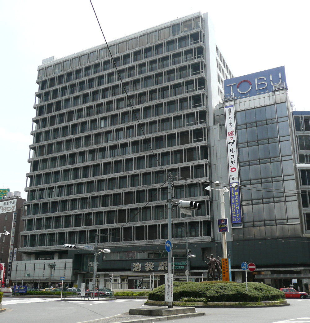 West Exit of Ikebukuro Station